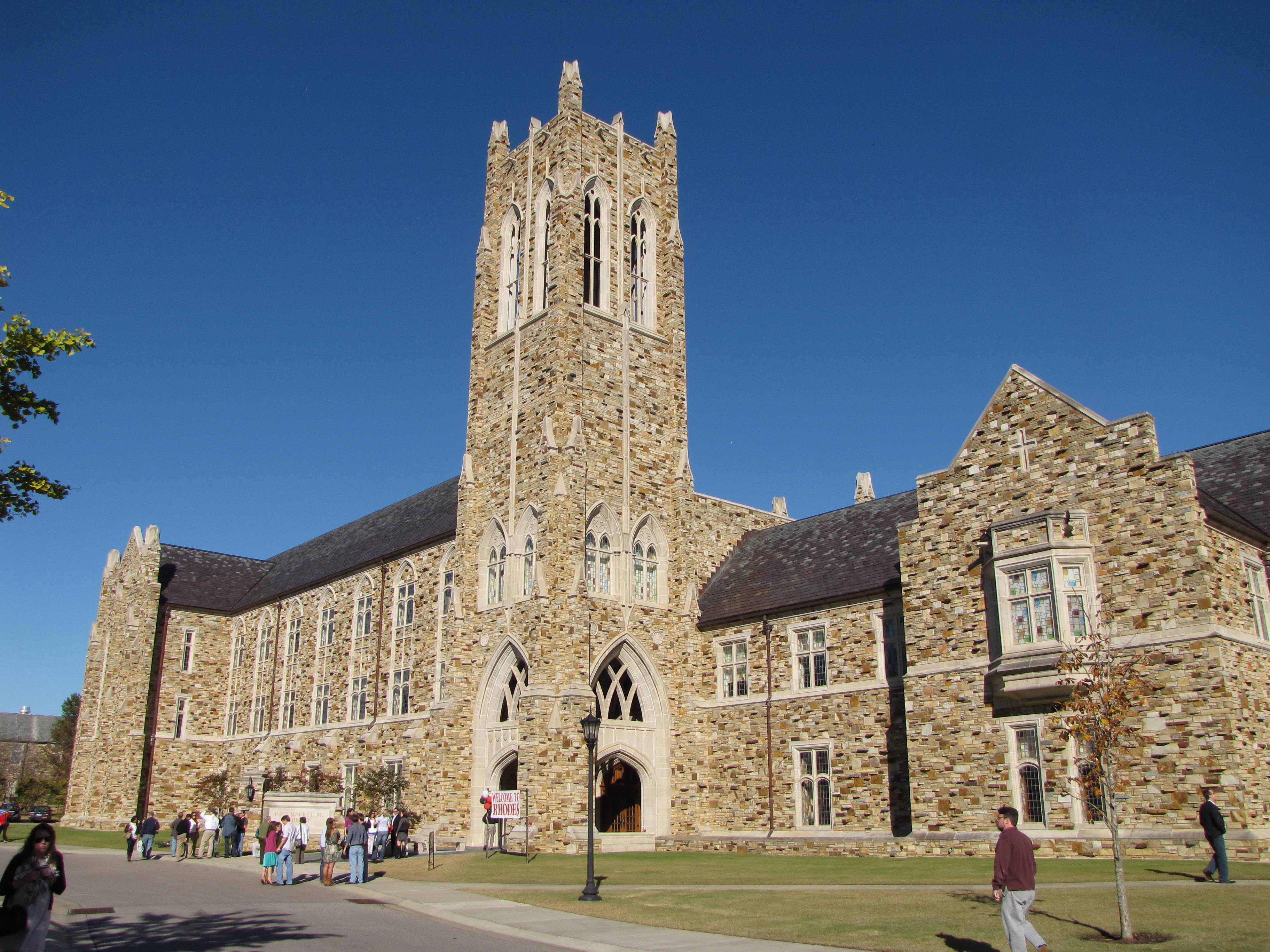 Paul Barret Library, taken during Rhodes College homecoming, 2009